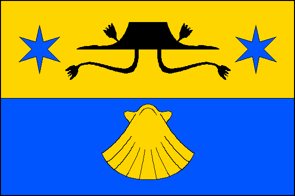 Municipal flag of Roštín village, Kroměříž District, Czech Republic.